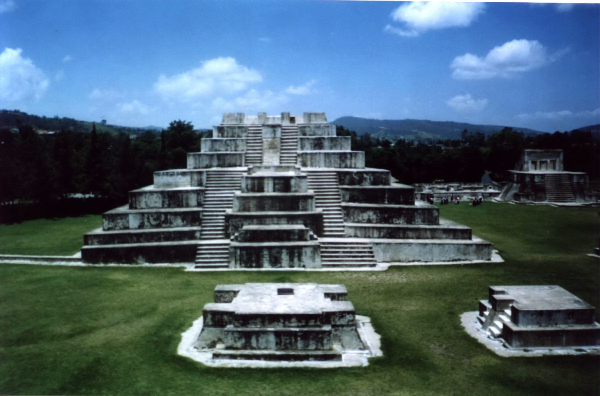 Mam Maya pyramid at Zaculeu, Huehuetenango, Guatemala. Postclassic Period.